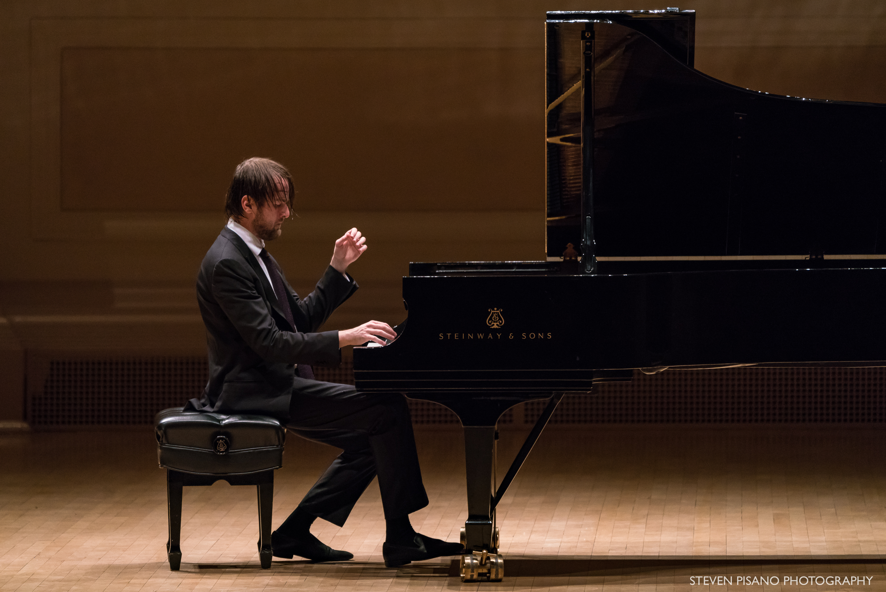 October 28, 2017 Carnegie Hall New York, NY Photo by Steven Pisano.